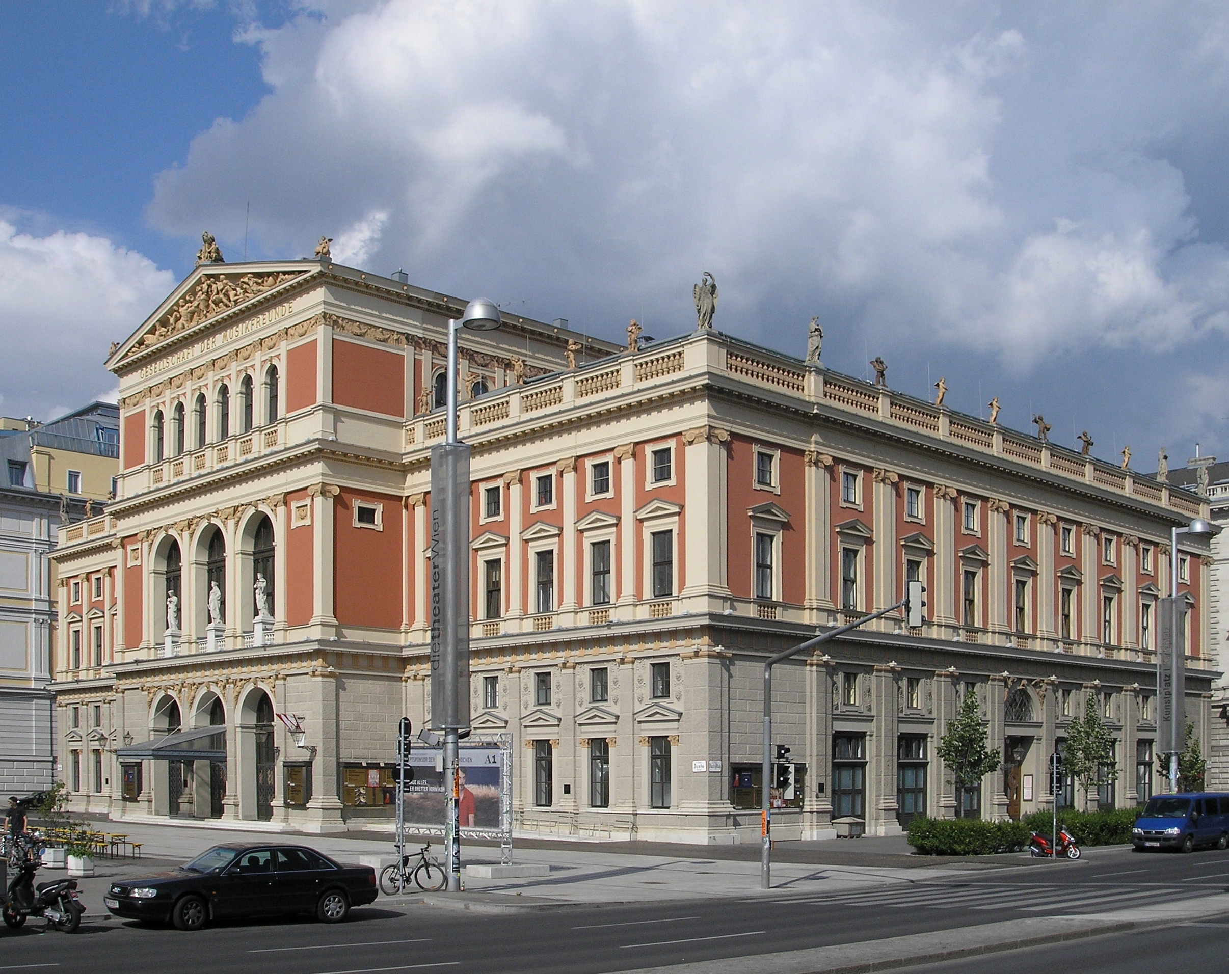 Image of the Musikverein in Vienna.